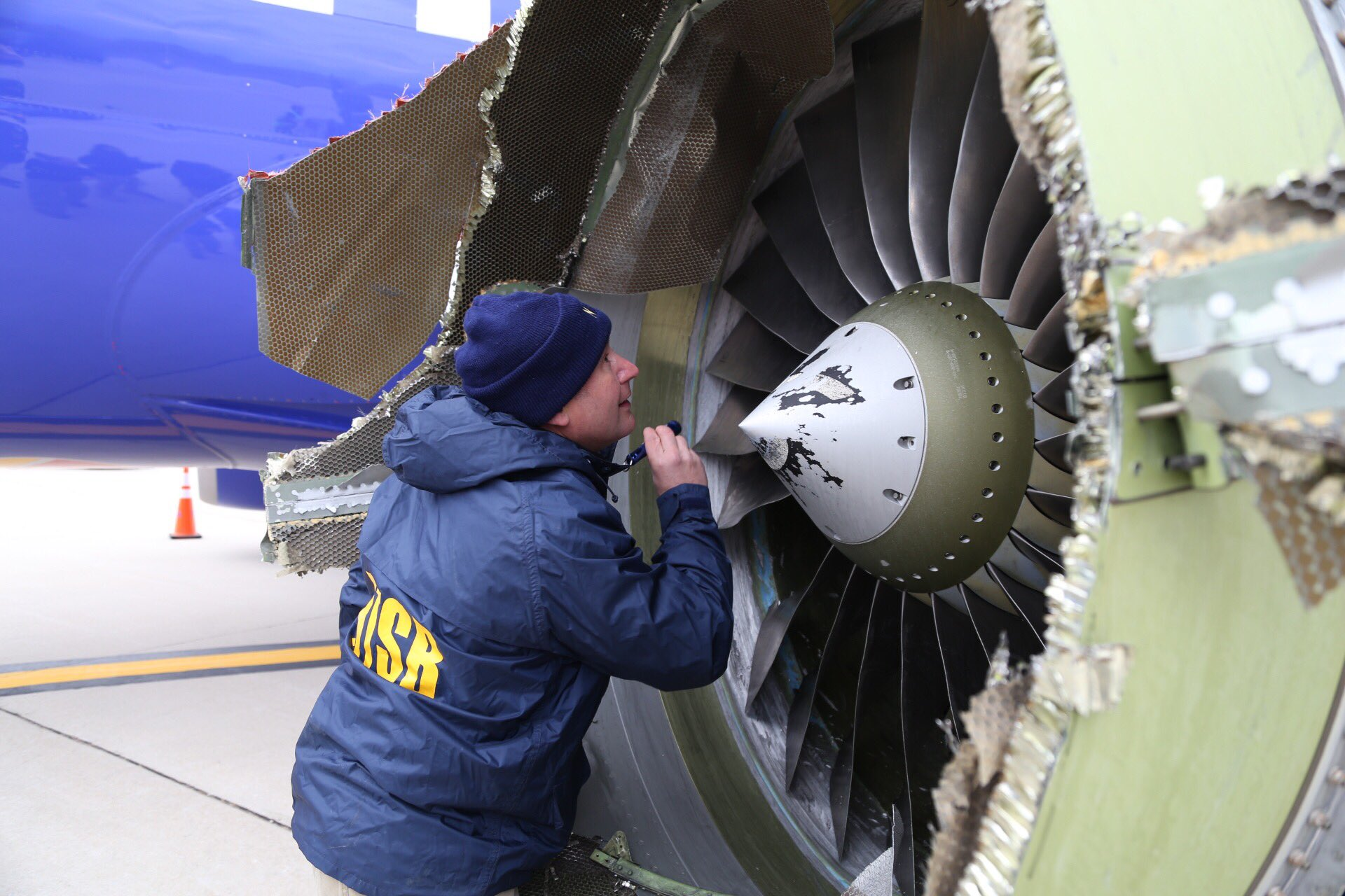 An employee of the National Transportation Safety Board inspects the damaged CFM56 turbofan jet engine of the Boeing 737-700 involved in the Southwest Airlines flight 1380 incident on 17 April 2018. Aircraft Registration N772SW.